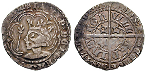 Scotland. David II of Scotland. 1329-1371. AR Groat (3.11 gm). Light coinage, 1367-1371. Edinburgh mint. Crowned bust left holding sceptre before; star at base of sceptre Long cross quartered with mullets. Burns 38; Seaby 5125. Nice Fine, toned, heavily clipped. A particularly good example of the "ugly head."